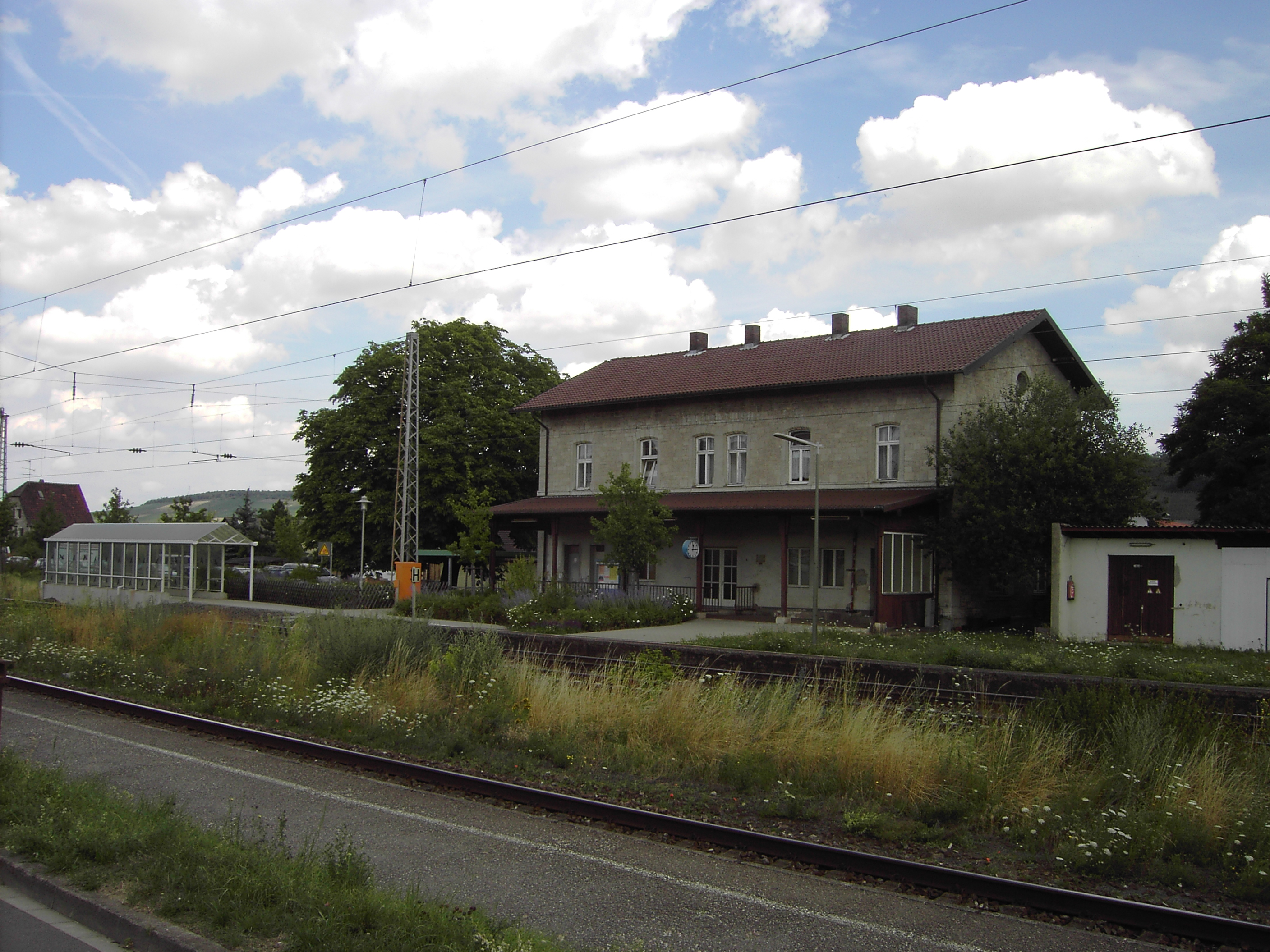 View over the station area of Winterhausen